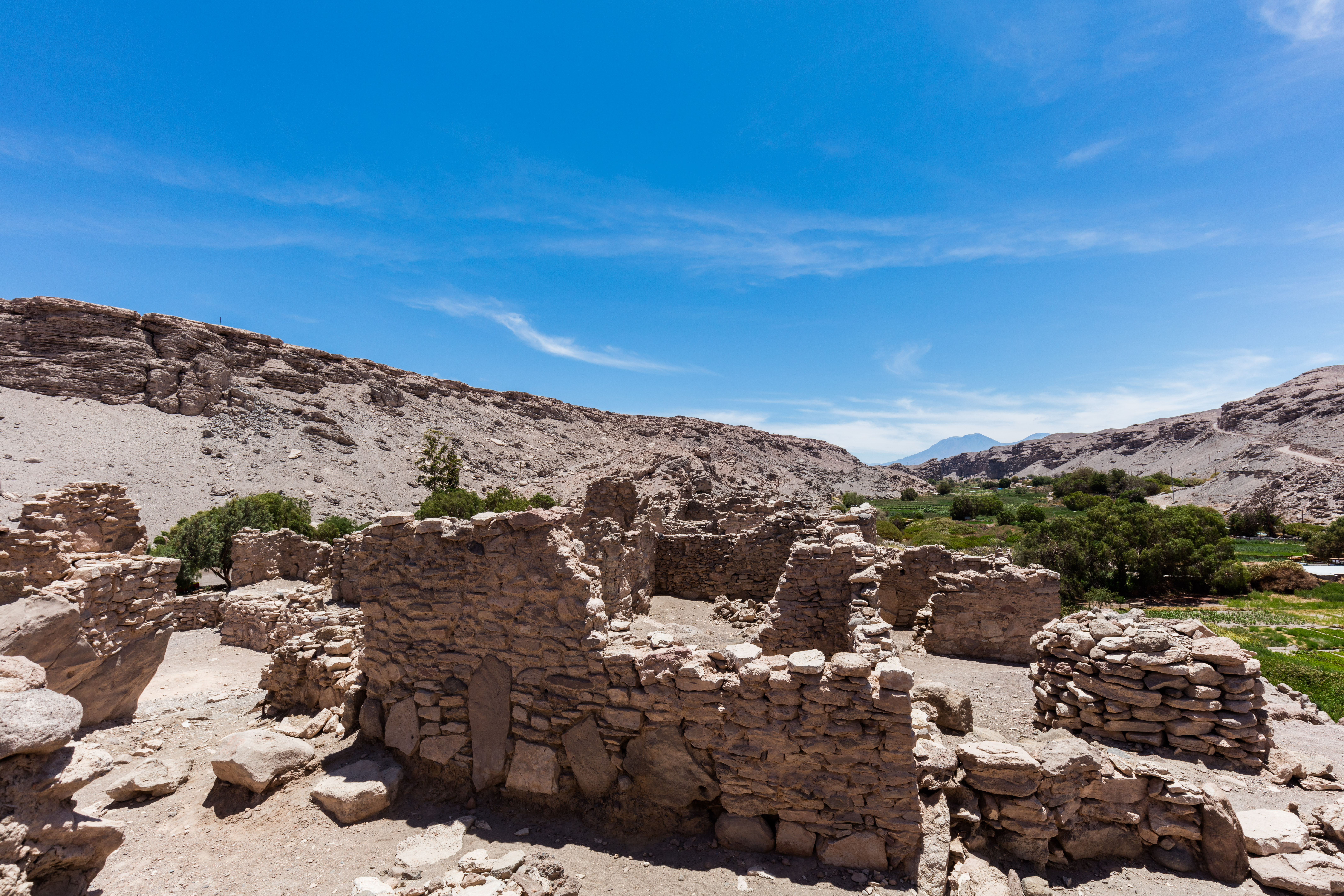 Pucará of Lasana, Chile